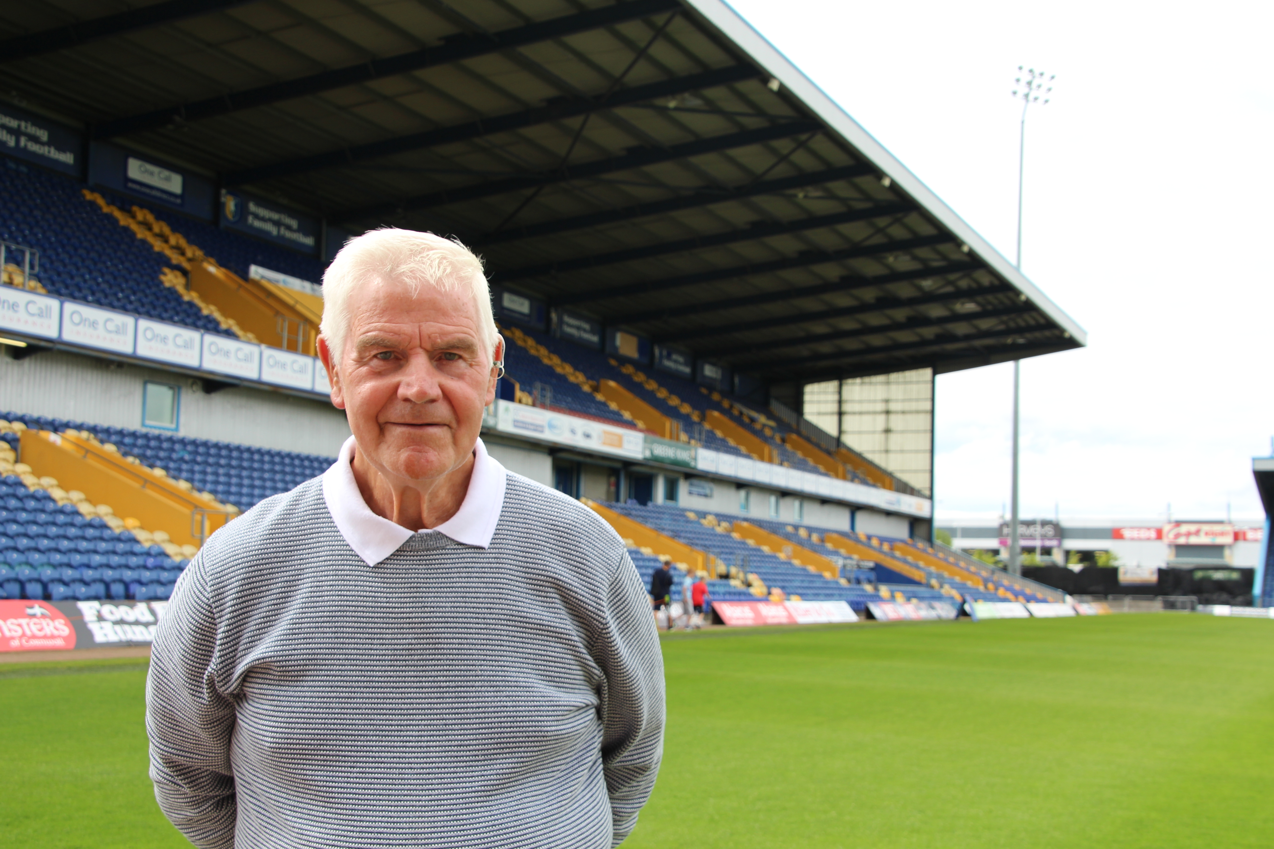 Colin at the One Call stadium recently